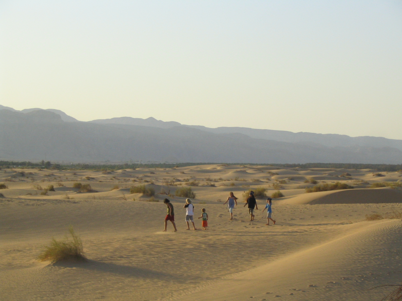 Samar Dunes, Arabah, Israel